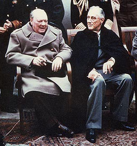 Winston Churchill and Franklin D. Roosevelt at Yalta, 1945.